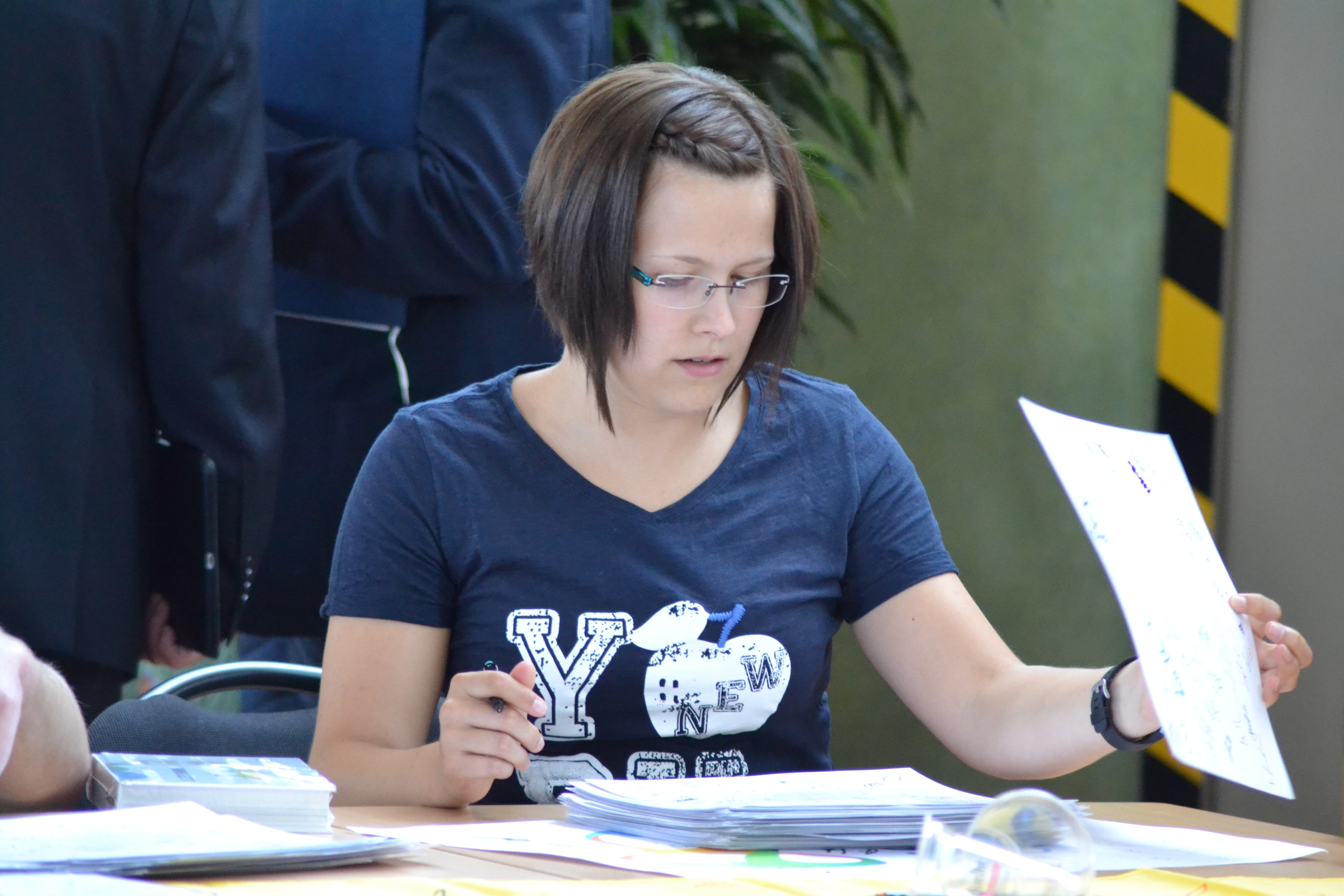 Media day of the clothing of the German Olympic team for Rio 2016 in the Emmich-Cambrai-Kaserne in Hanover. Pictured persons see Categories.